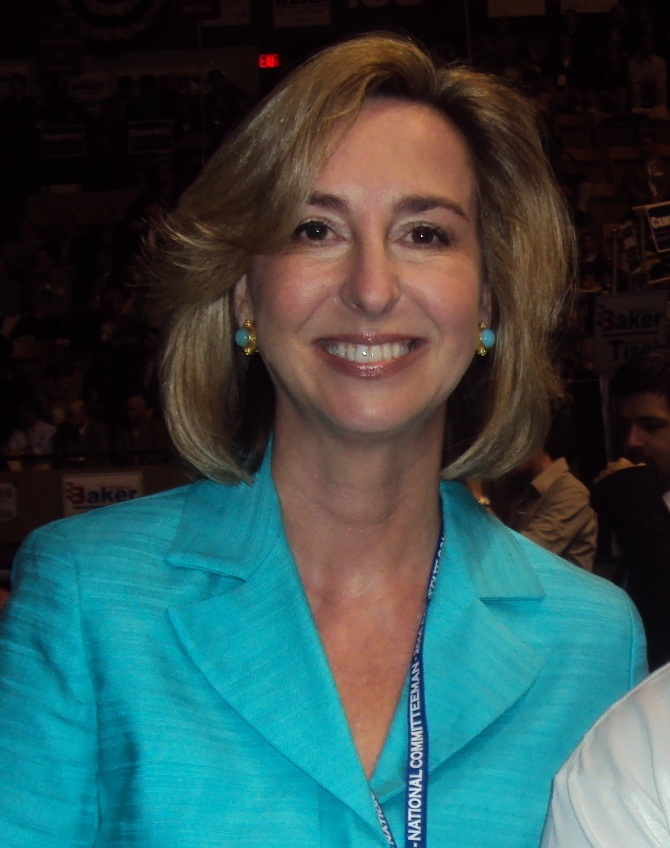 former mass gop chairman Kerry Healey